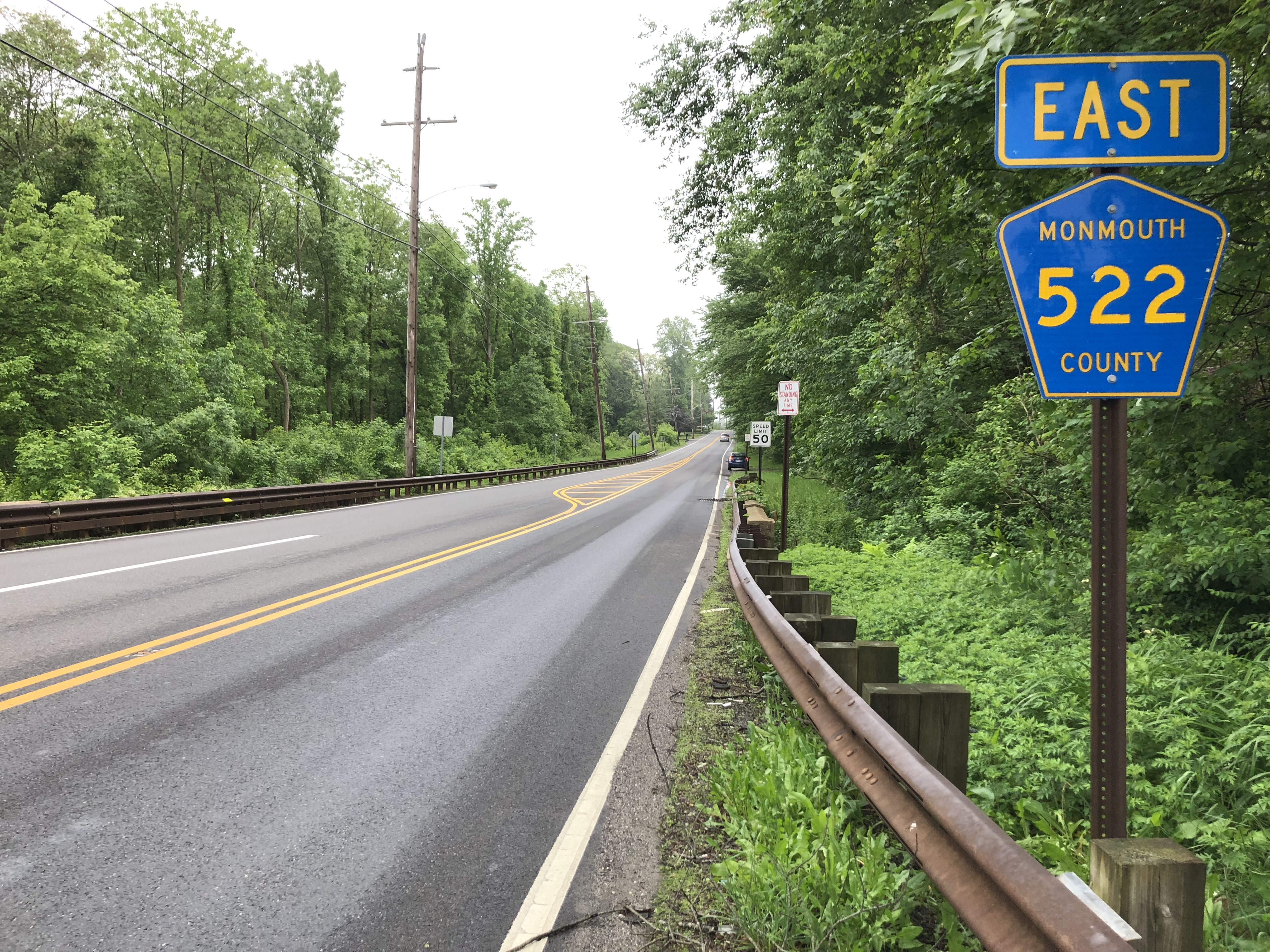 View east along Monmouth County Route 522 (Englishtown-Freehold Road) at Wemrock Road in Freehold Township, Monmouth County, New Jersey